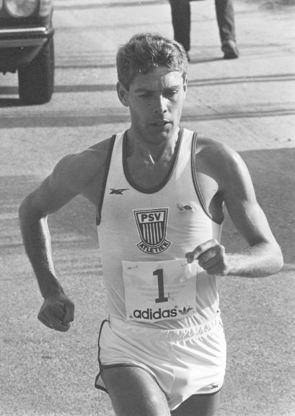 Cor Vriend, marathon van Amsterdam